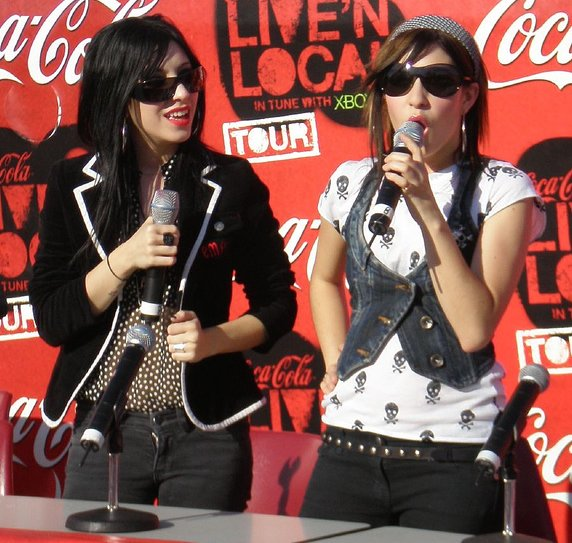 The Veronicas interviewed at the Live 'n Local tour 2006 in Perth, Australia